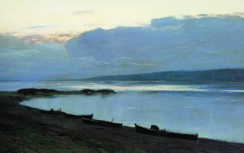 Evening on the Volga